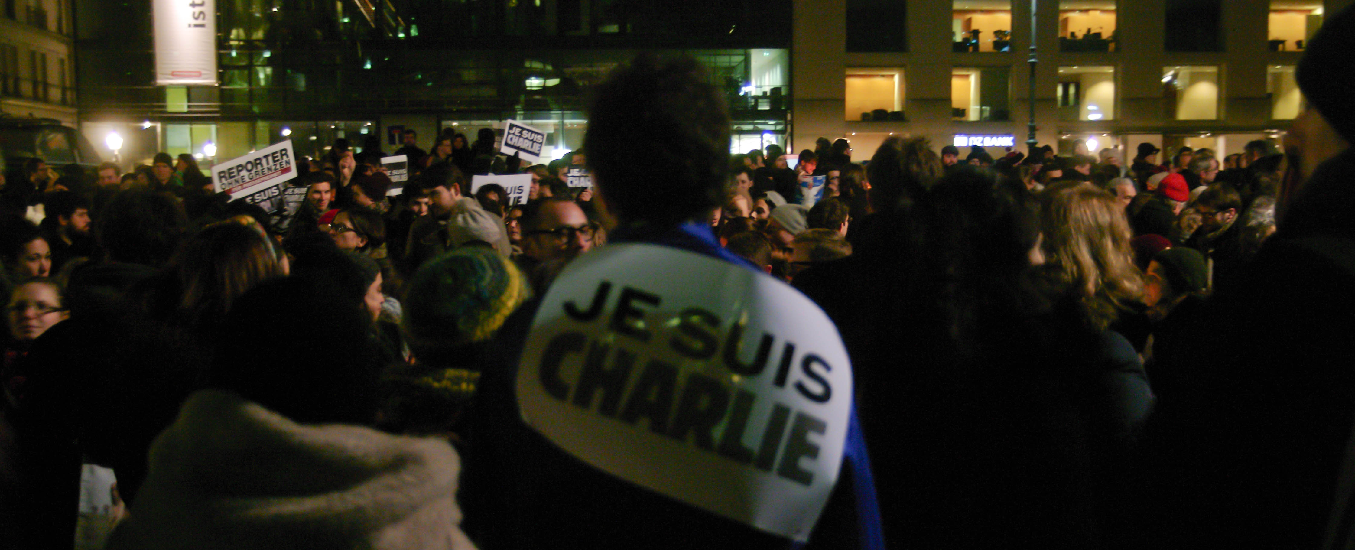 Berlin rally in support of the victims of the 2015 Charlie Hebdo shooting